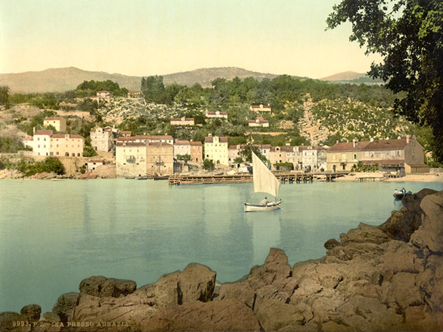 Ika near Abbazia Istria Austro-Hungary